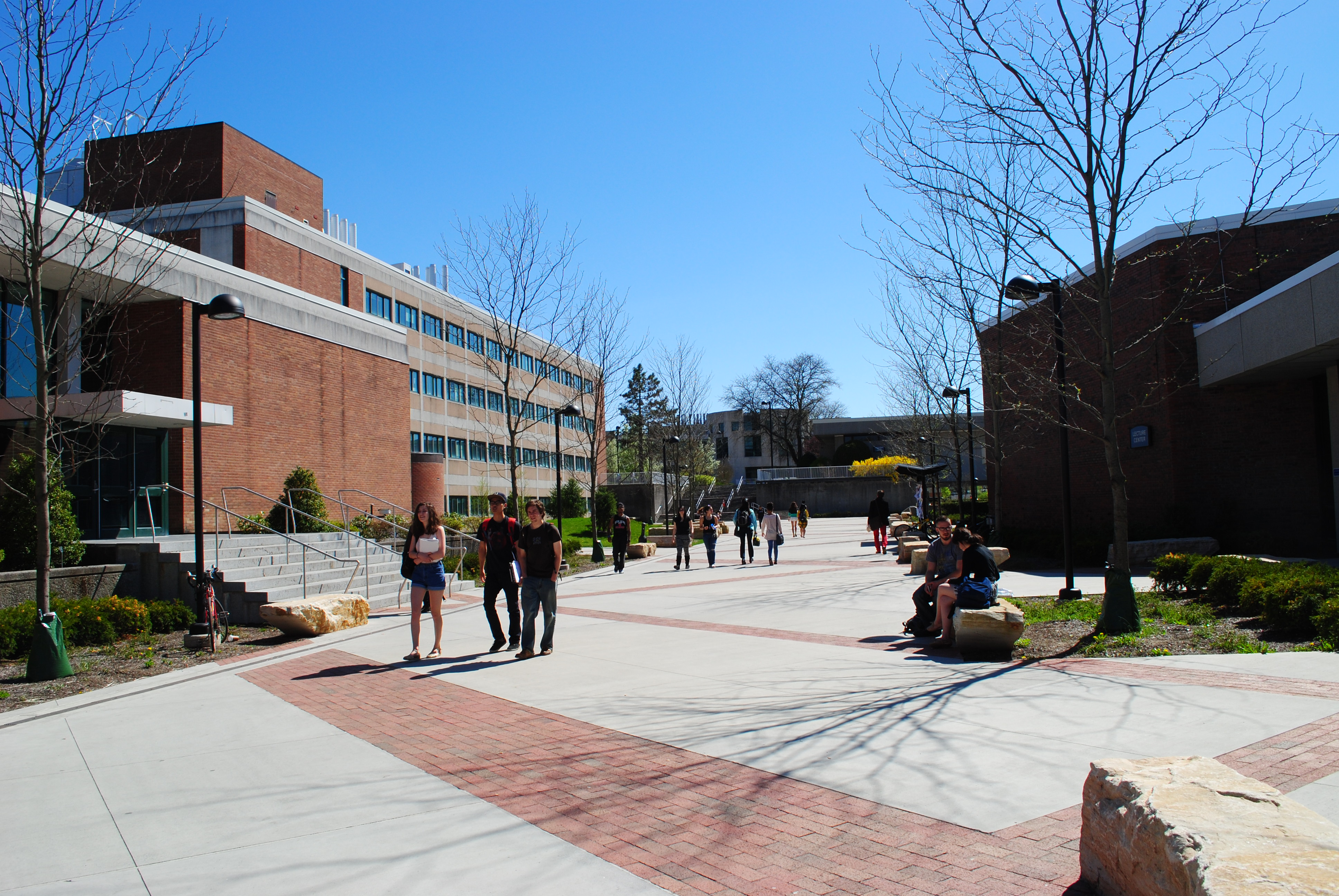 The Academic Spine at SUNY New Paltz